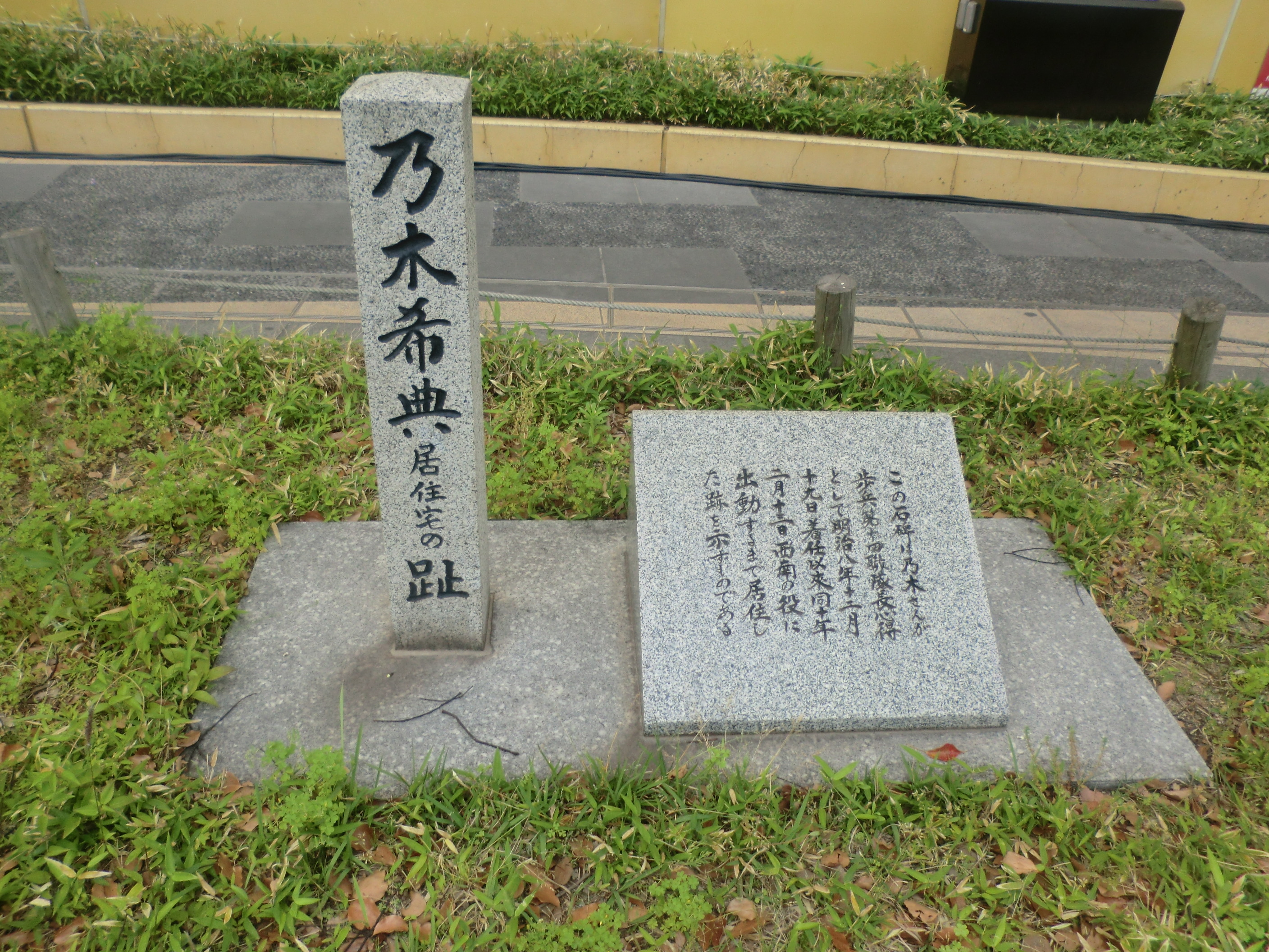 Stele of residence of Count Nogi Maresuke in Kokura at Kitakyushu,Fukuoka,Japan.